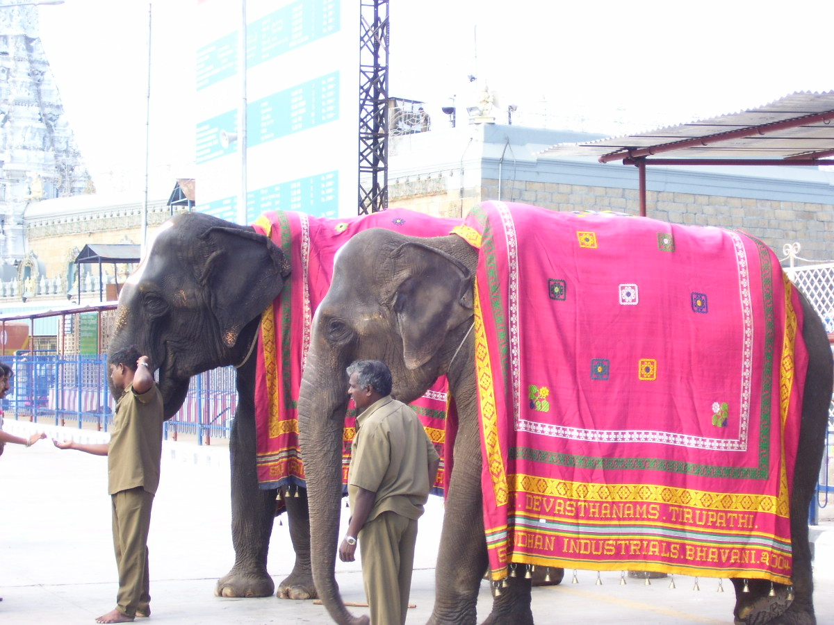 Elephants of Tirumala Venkateswara Temple on the North side of the temple and in front of the Swami Pushkarini (not seen)